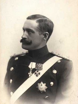 Ole Olufsen (1885-1929), Danish army officer, geographer, and explorer